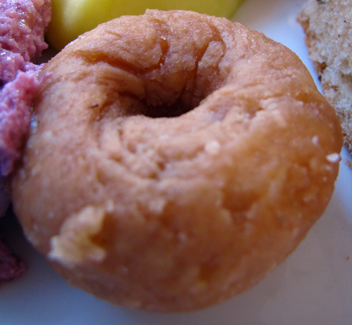 A balushahi. Original photo taken at Parabola, Rodas Hotels, in Powai, Mumbai, India, with a Canon PowerShot S5 IS digital camera. Another copy is here.